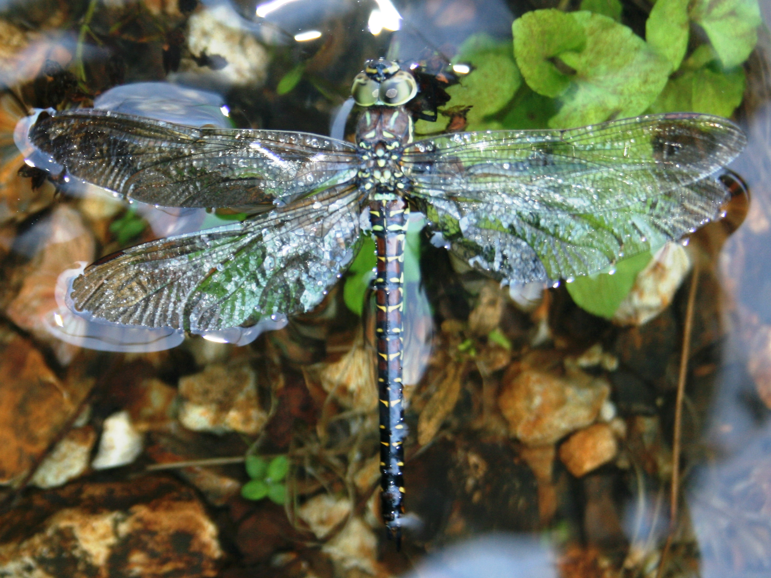 Aeshna juncea in Yasyagaike